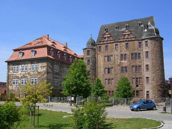 Castle at Heringen/Helme (left the new one), May 2005 photograph by Gerhard Hund.